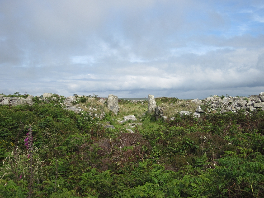 Chûn Castle in Cornwall UK